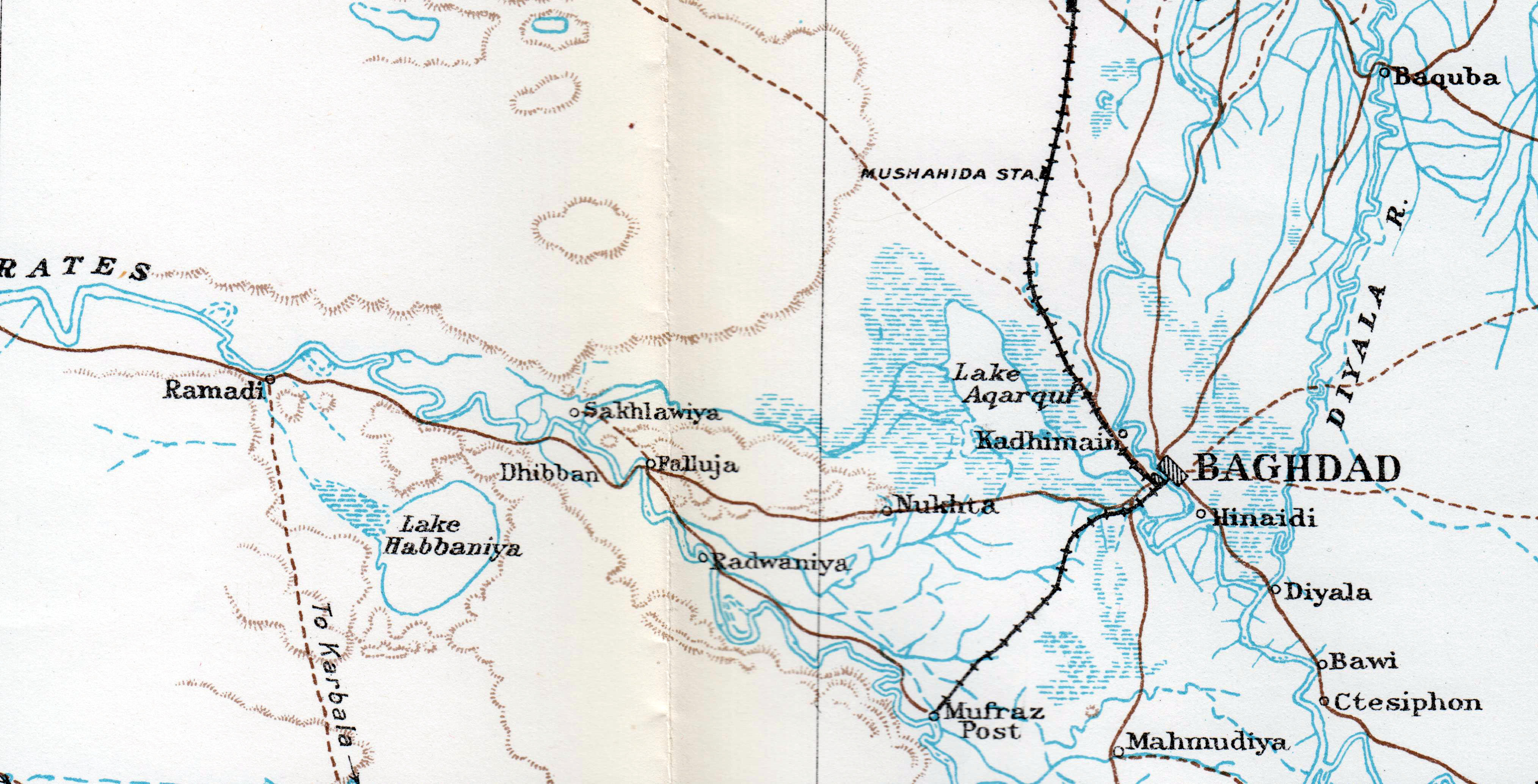 Map of the Euphrates from Ramadi to Baghdad in 1917, extracted from larger map of Upper Mesopotamia